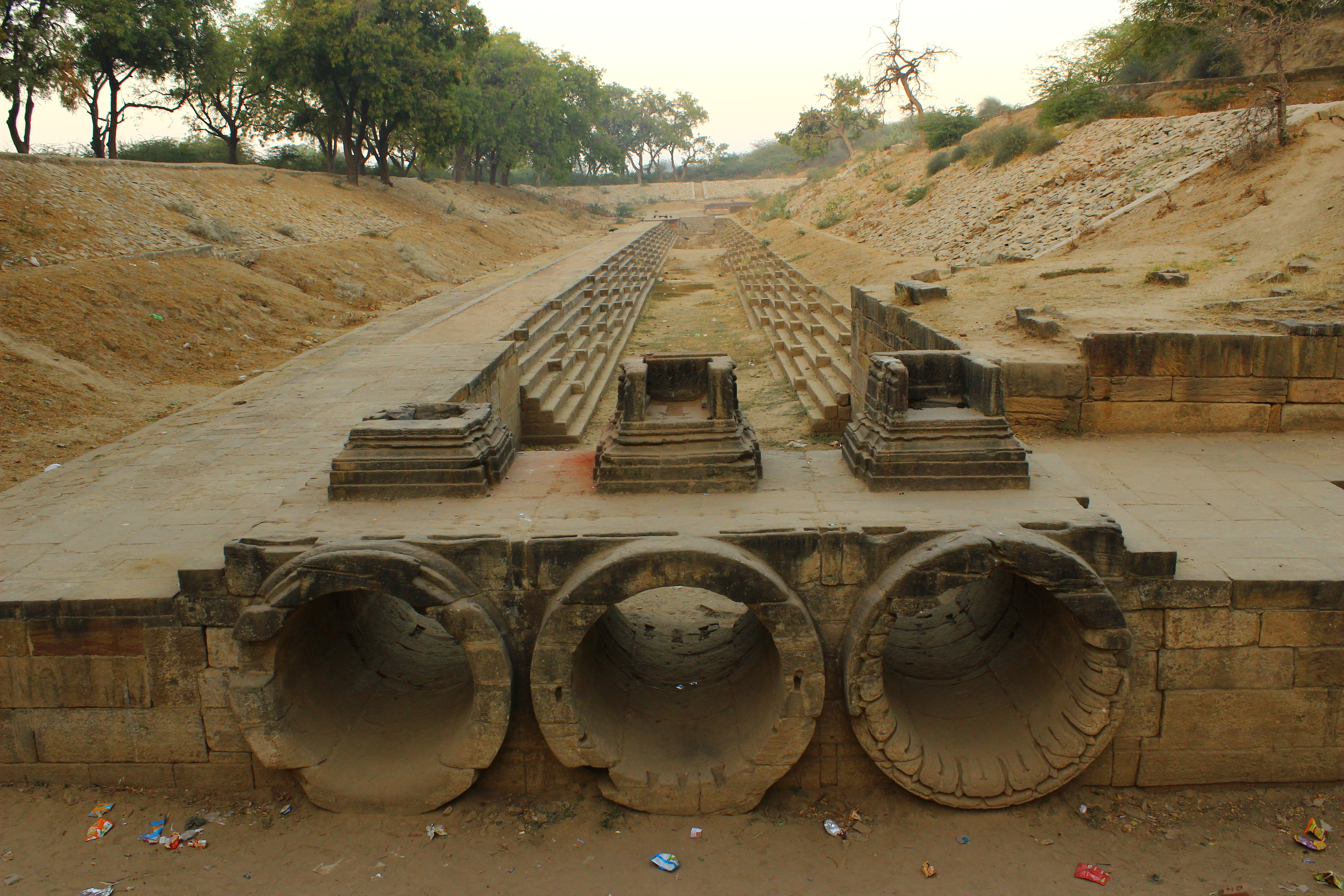 The tank used to receive water from a canal of the Saraswati River and had spread of about 5 km with good stone masonry embankments